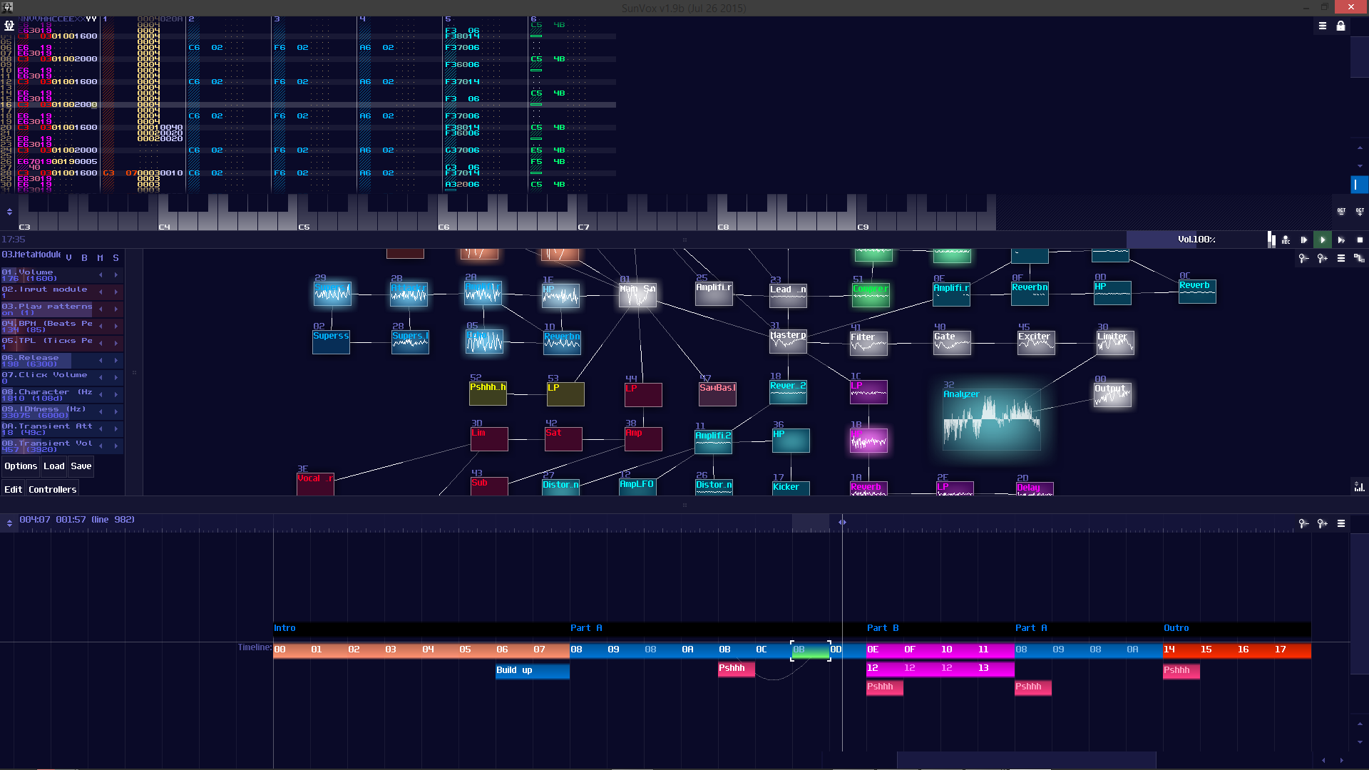 SunVox v1.9b (Jul 26 2015)